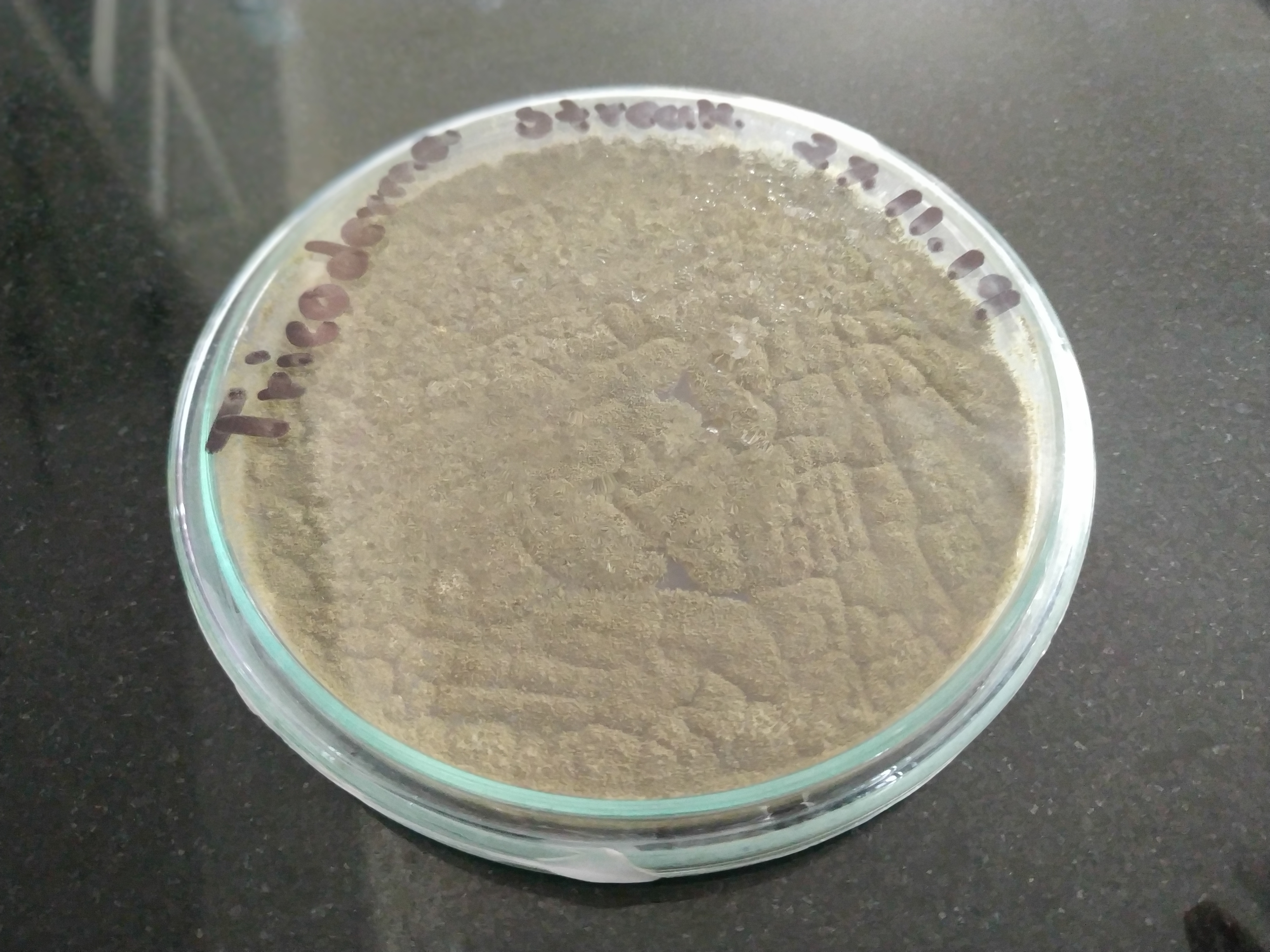 Trichoderma viride Plate